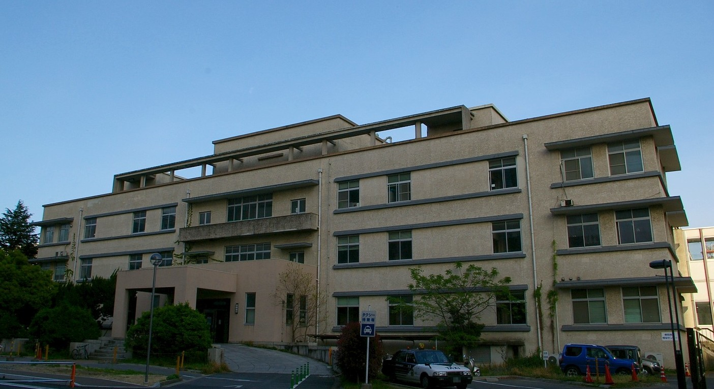 selfmade